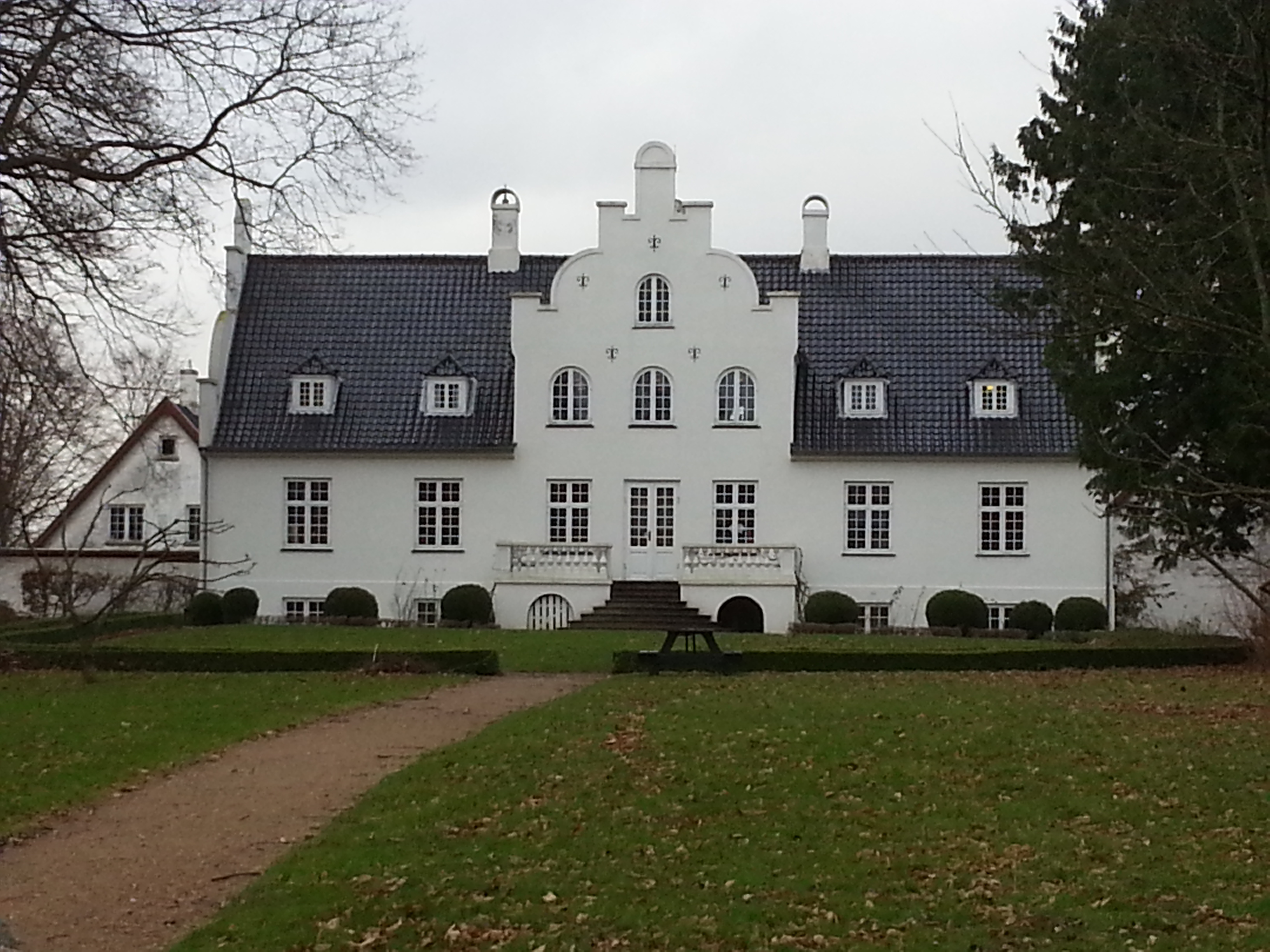 Flynderupgård 2